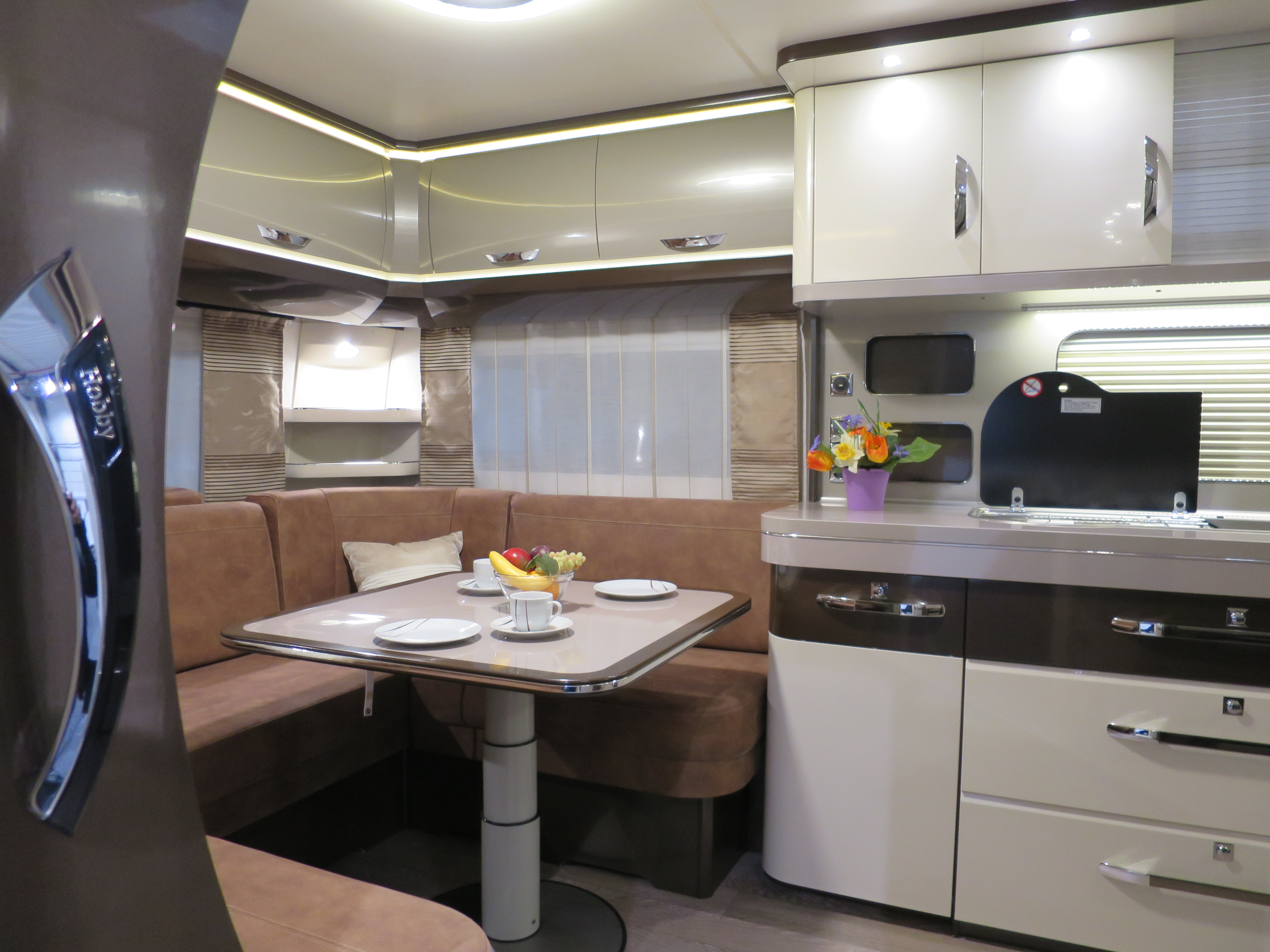 Hobby Premium 650 UFe.